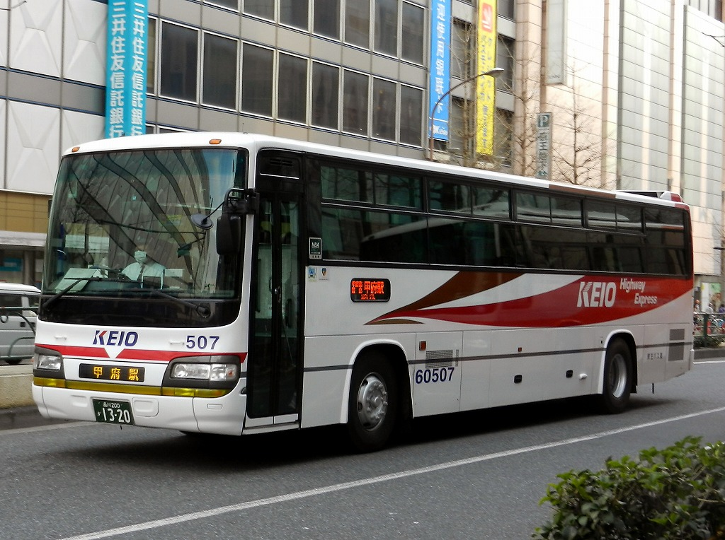 Keio bus East Hino S'elega R FS (KL-RU4FSEA)